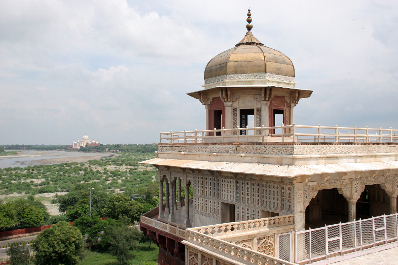 Musamman Burj at Agra Fort with Taj Mahal in the background